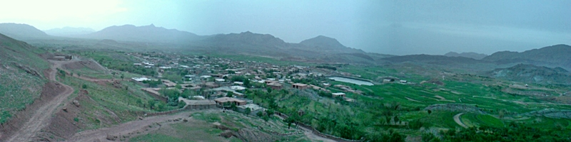 Bihud panorama